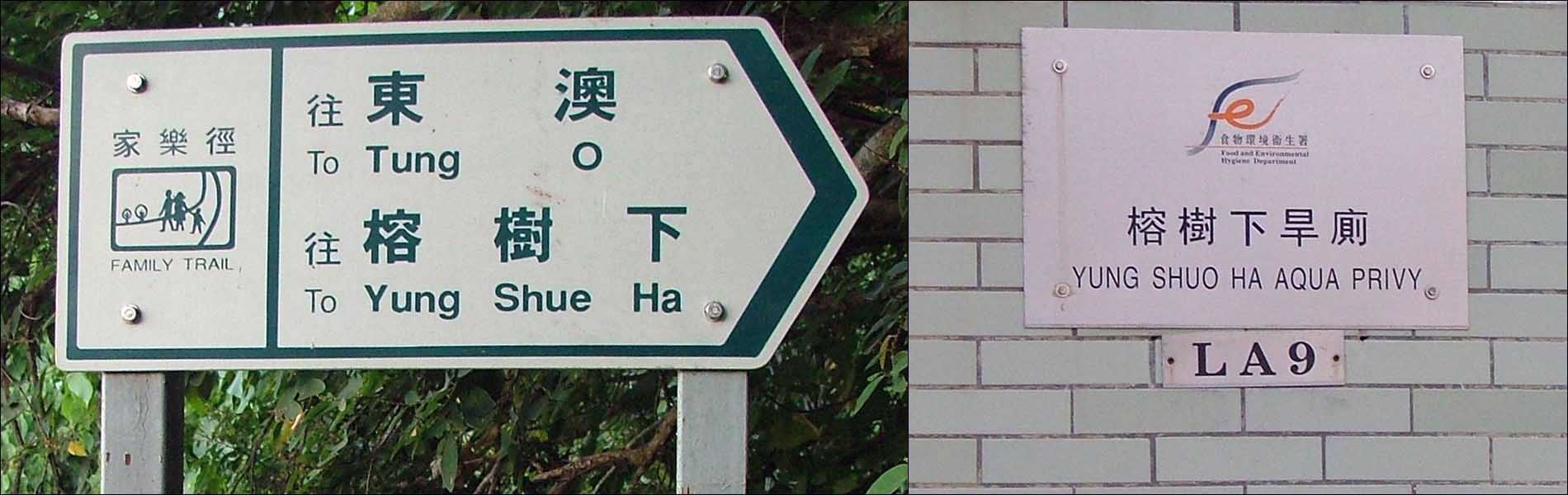 For demonstration of inconsistent romanization. Notice latin characters for shue (樹)